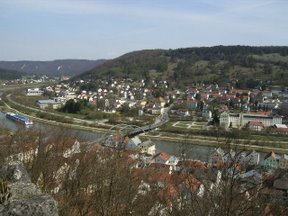 Riedenburg and the river Altmühl seen from the ruin Rabenstein, Kelheim (district), Bavaria, Germany